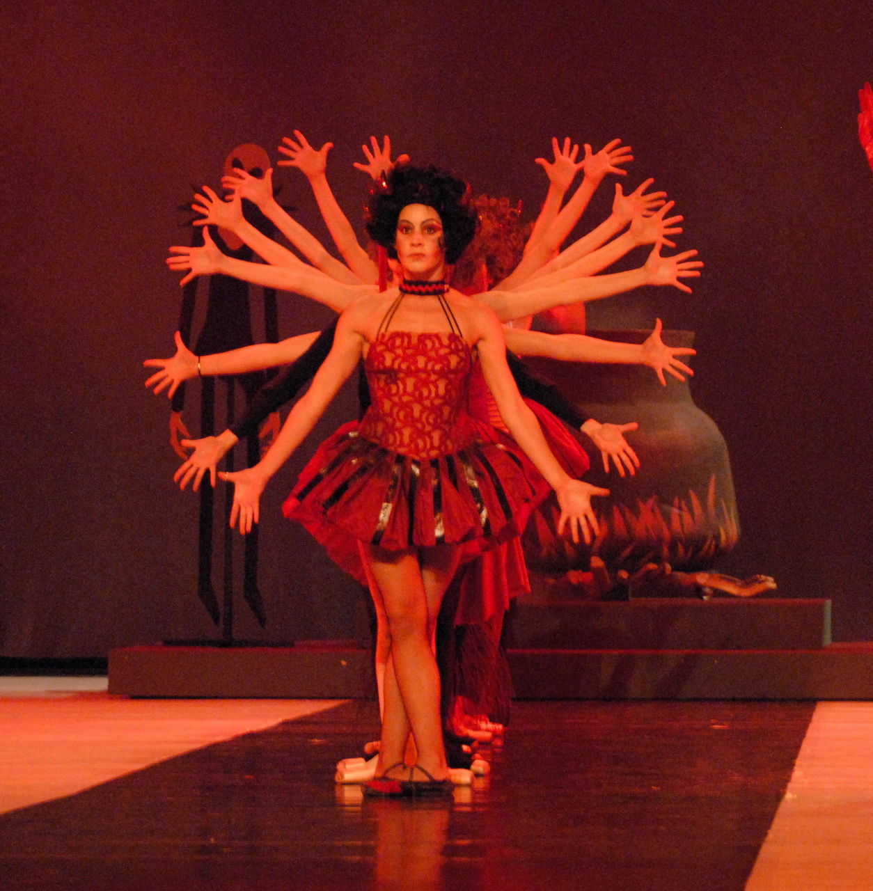 "Puss in Boots" by Bruno Bjelinski based on the Fairy Tale by Charles Perrault; Direction and choreography Ljiljana Gvozdenović; Ballet of the SNT, Novi Sad, 2008/09; Andreja Kulešević Srpski (latinica): "Mačak u čizmama" Bruna Bjelinskog po priči Šarla Peroa; režija i koreografija Ljiljana Gvozdenović; Balet SNP-a, Novi Sad, 2008/09; Andreja Kulešević Српски (ћирилица): "Мачак у чизмама" Бруна Бјелинског по причи Шарла Пероа; режија и кореографија Љиљана Гвозденовић; Балет СНП-а, Нови Сад, 2008/09; Андреја Кулешевић